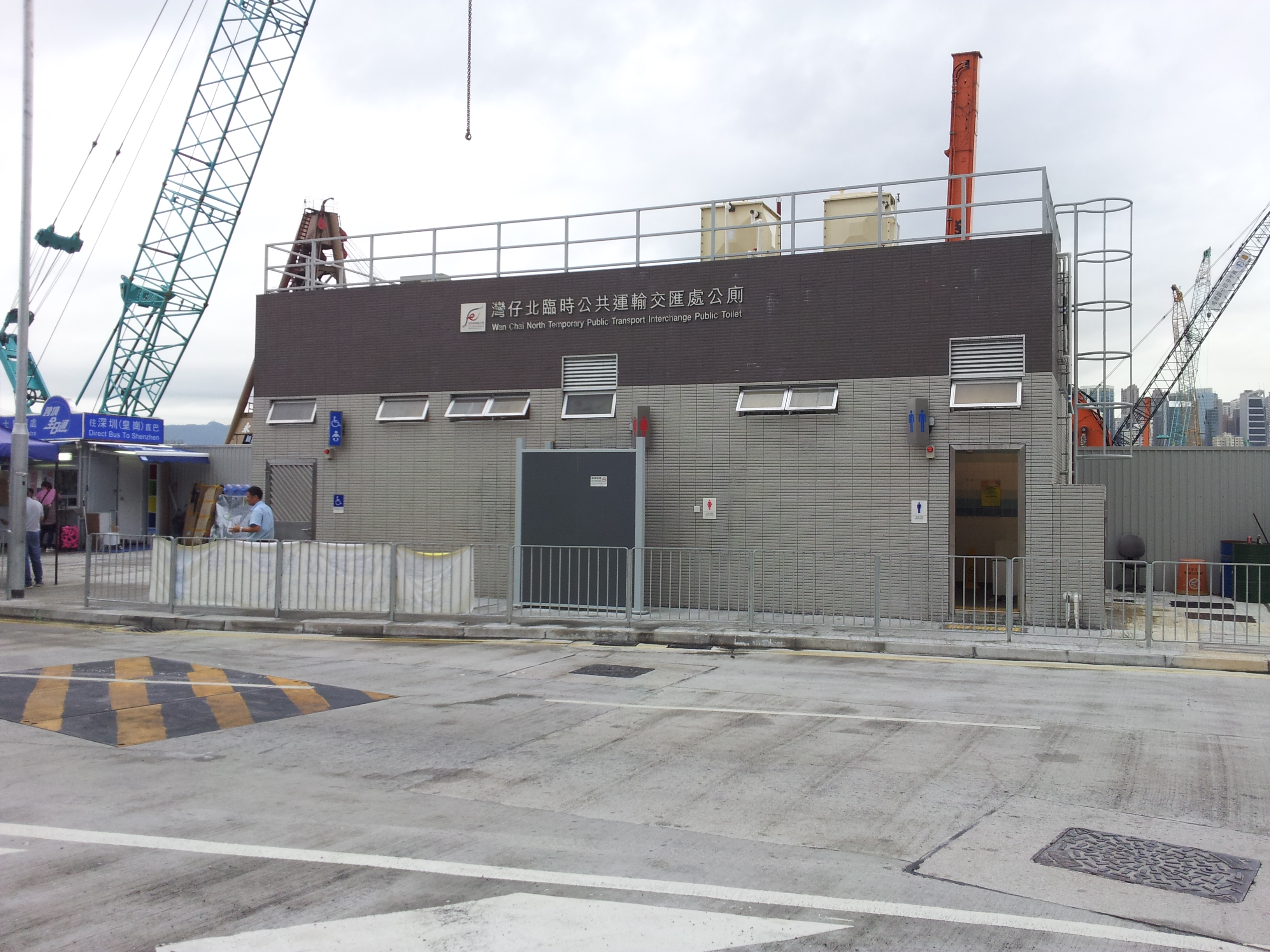 wan chai north public transport interchange toilet